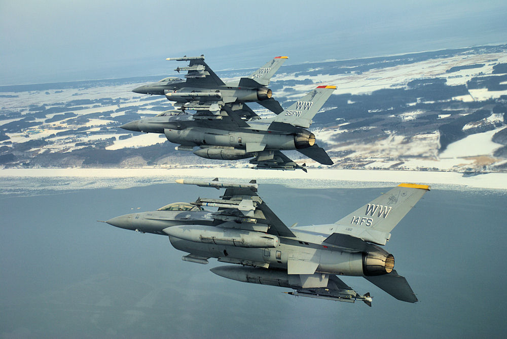 F-16 fighter jets perform an echelon turn over Misawa Air Base, piloted by (farthest to closest) Lt. Gen. Bruce Wright, 5th Air Force commander; Col. T.J. O'Shaughnessy, 35th Fighter Wing commander; and Lt. Col. Charles Toplikar, 14th Fighter Squadron commander, Feb. 6, 2008. This was General Wright's final flight in the 5th AF flagship fighter jet. (U.S. Air Force photo by Lt. Col. Judd Fancher)